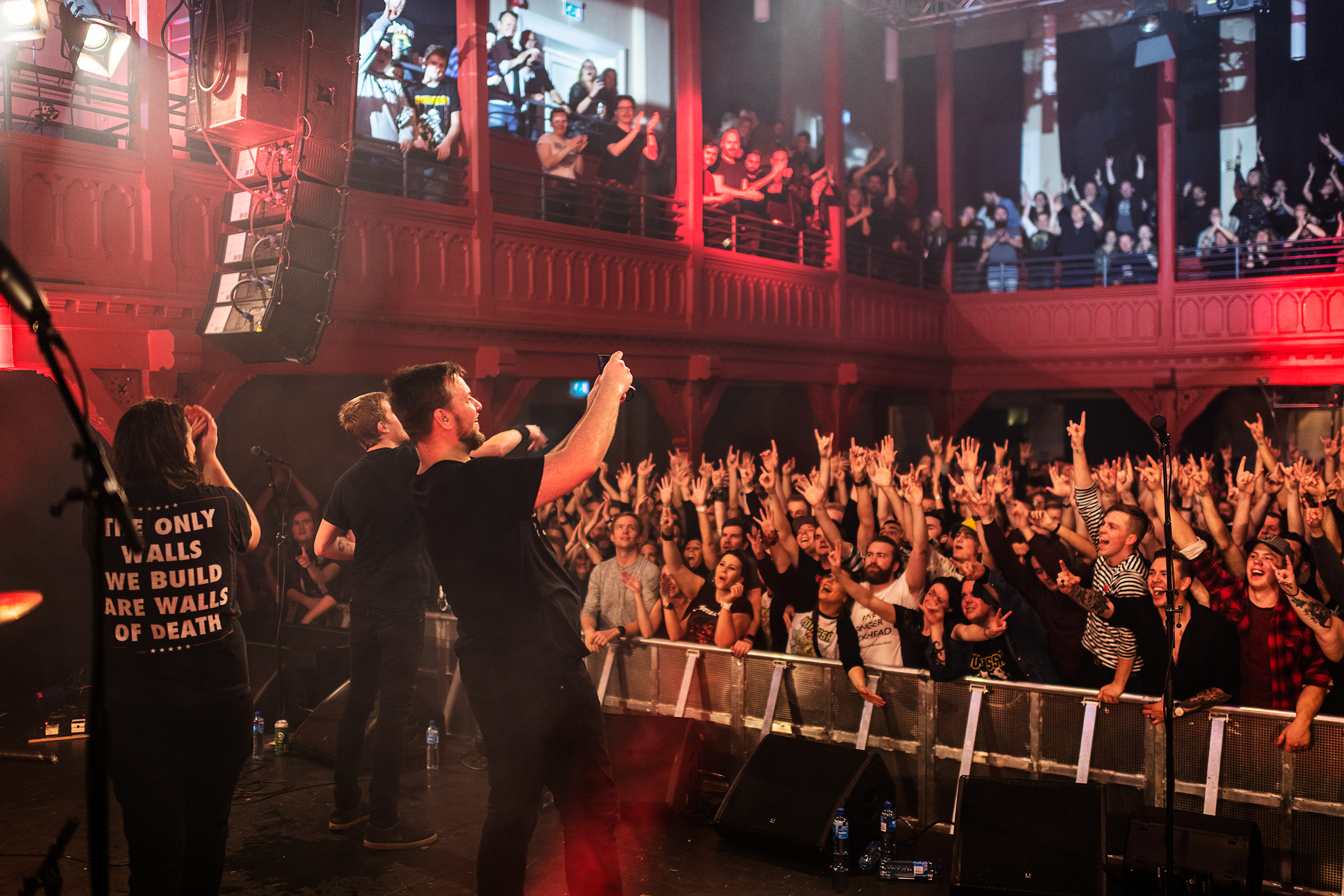 Bokassa performs at Byscenen Trondheim